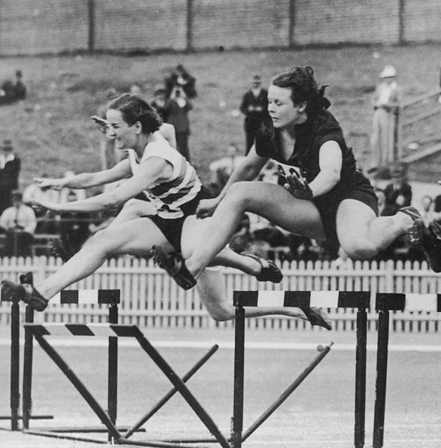 The first heat of the 80 metres hurdles at the British Empire Games (later the Commonwealth Games) in Sydney, 24th February 1938. From left to right, England's Ethel Raby, South Africa's Barbara Burke and Australia's N. Gould take the second hurdle. Burke went on to win the event.